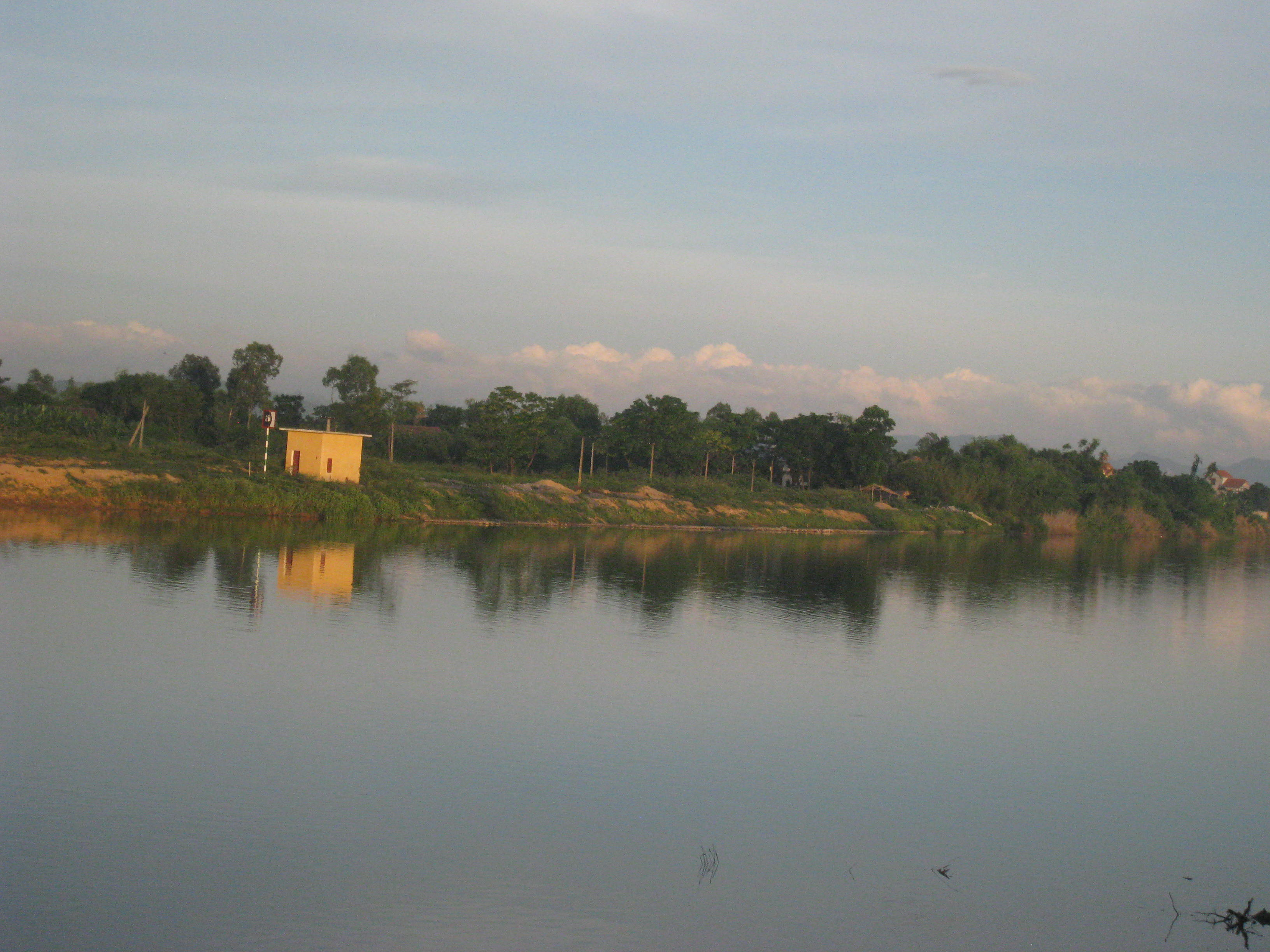 Kien Giang River, Le Thuy District, Quang Binh Province, Vietnam